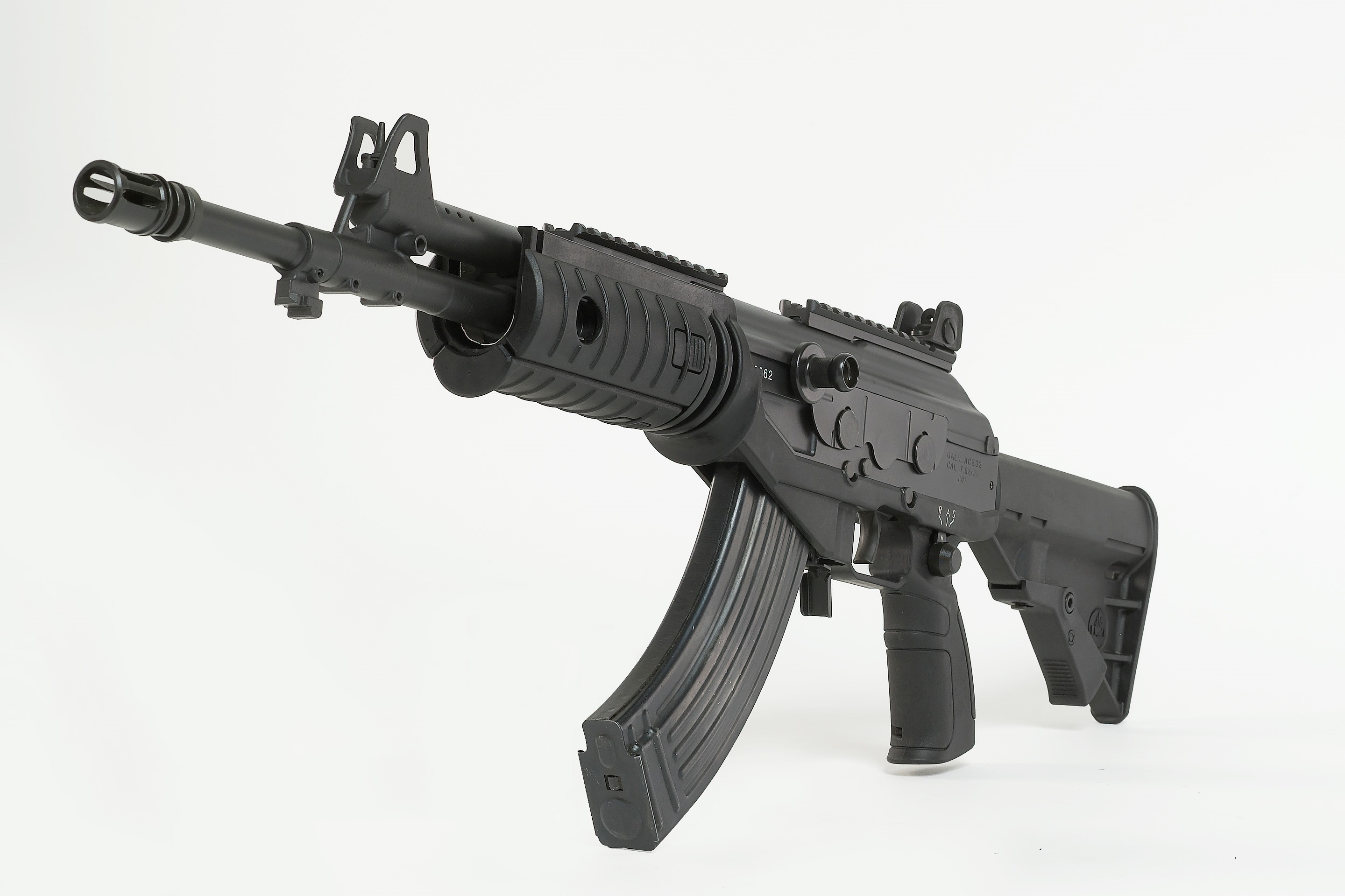 IWI Galil ACE